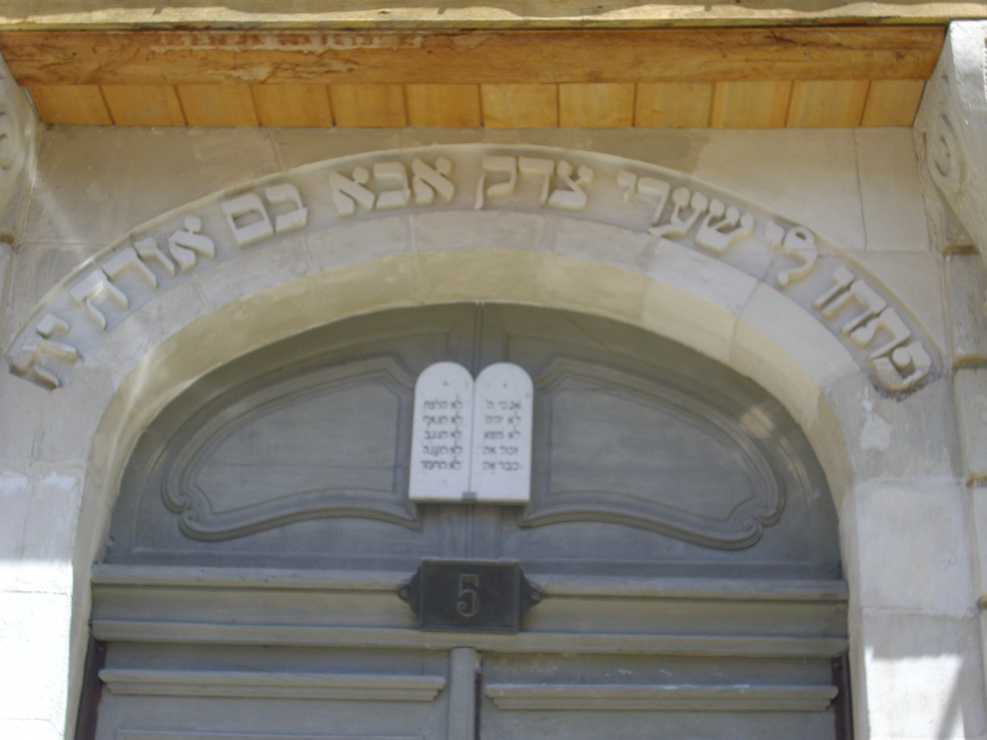 Synagog of Troyes (Aube, France)